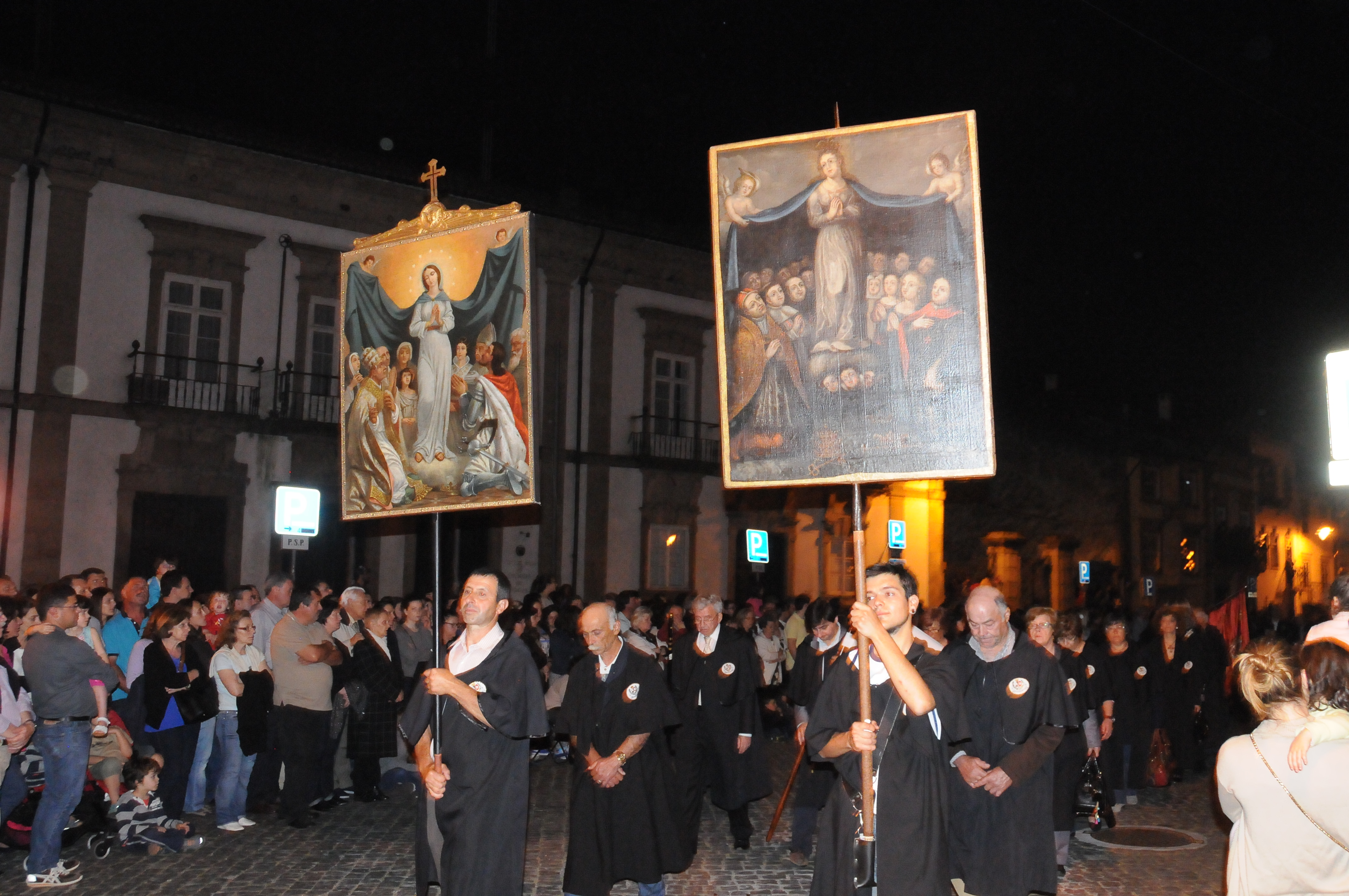 Ecce Homo Procession 2014, in Braga, Portugal.